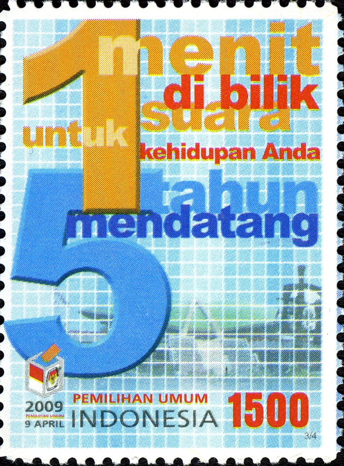 Stamps of Indonesia